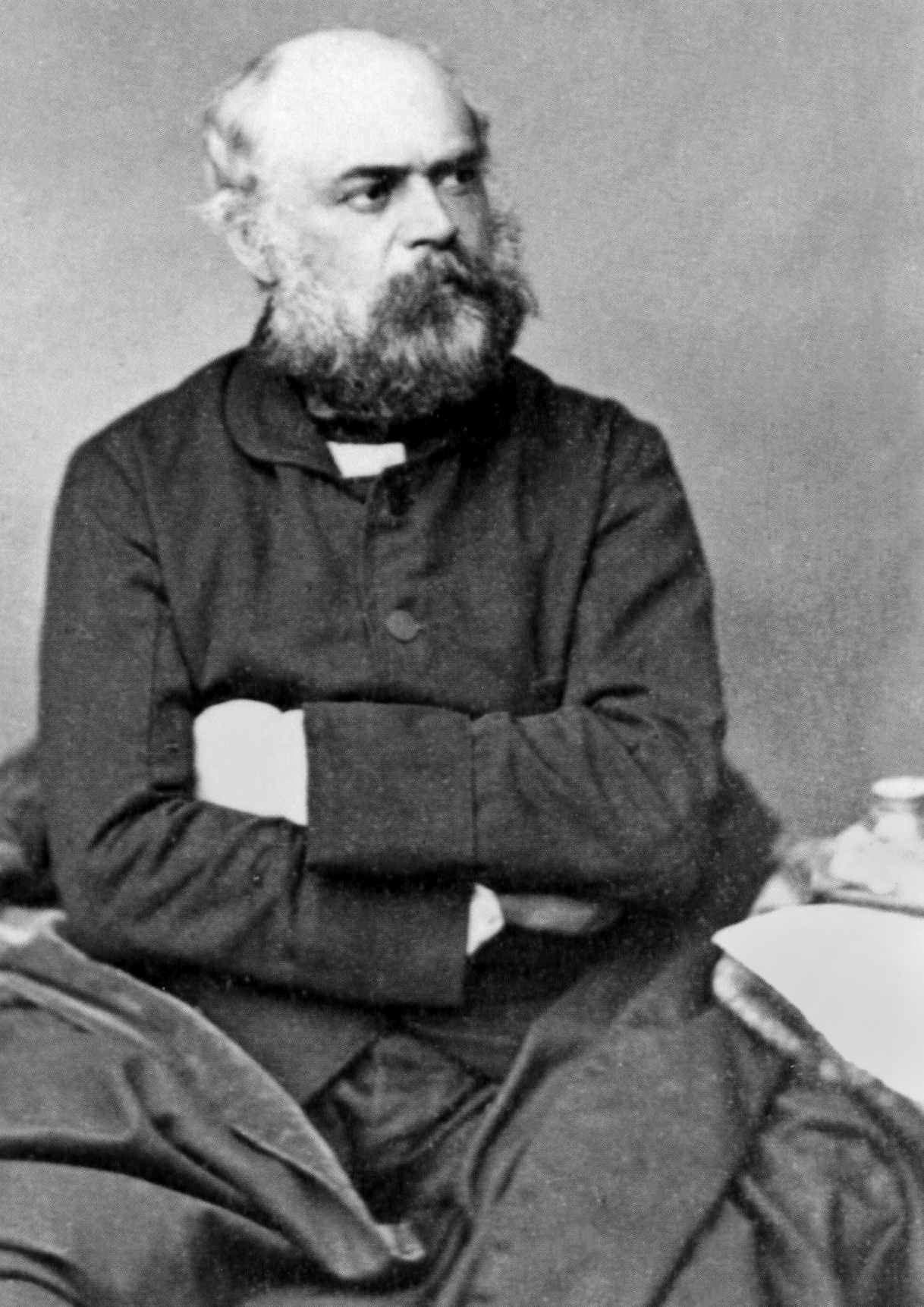 Adoplph Henselt, German/Russian pianist, died 1889